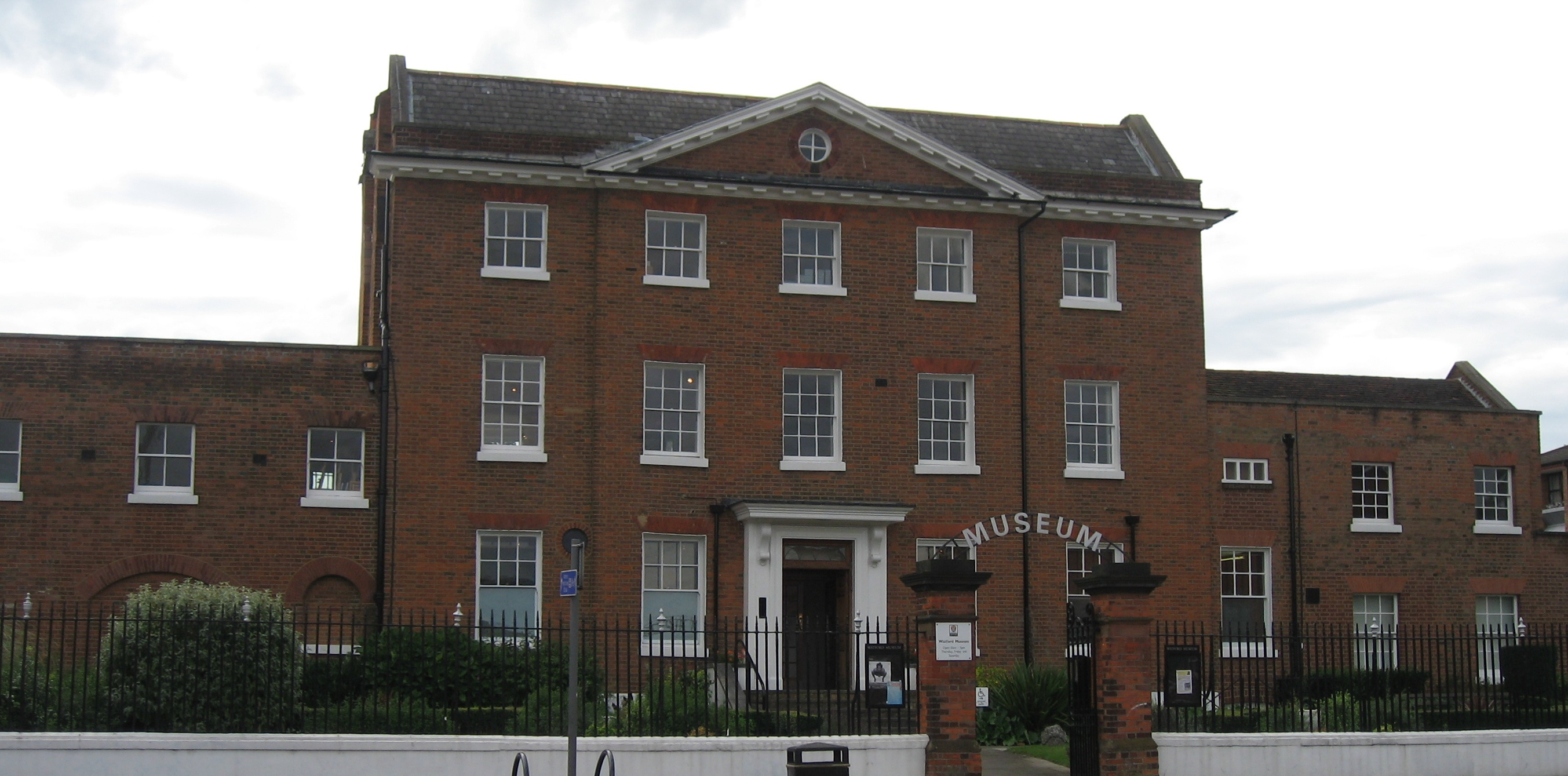 Benskins Brewery building, High St, Watford. Now the Watford Museum. Built 1775 as the home of Edmund Dawson. Later, it passed to John Dyson and then to Joseph Benskin. At first the Benskin family lived there but from 1868 the house became the Company’s head office and it continued to be brewery offices until the entire site was bought by Watford Council in 1975. The house now accommodates Watford Museum which opened in 1981.